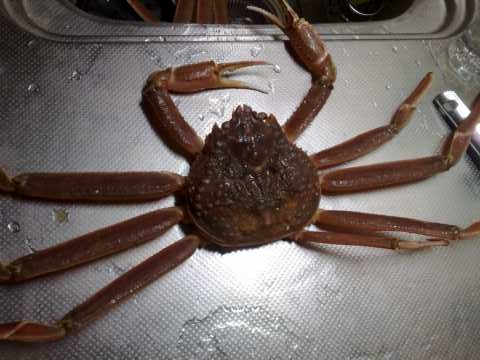 A specimens of snow crab (Chionoecetes opilio).